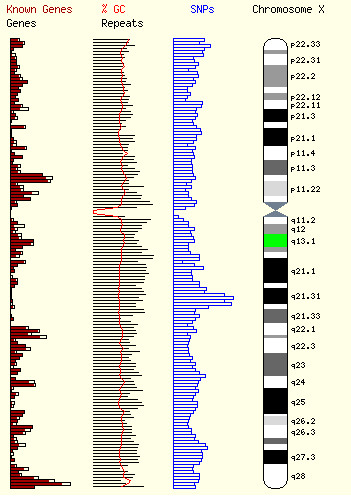 Caractéristique du chromosome X avec localisation (en vert) de la zone d'inactivation de l'X L'image de ce chromosome est copiée depuis Ensembl Genome Browser. Déclaration de la page d'accueil : Access to all the data produced by the project, and to the software used to analyse and present it, is provided free and without constraint